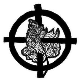 Символ имени Создателя